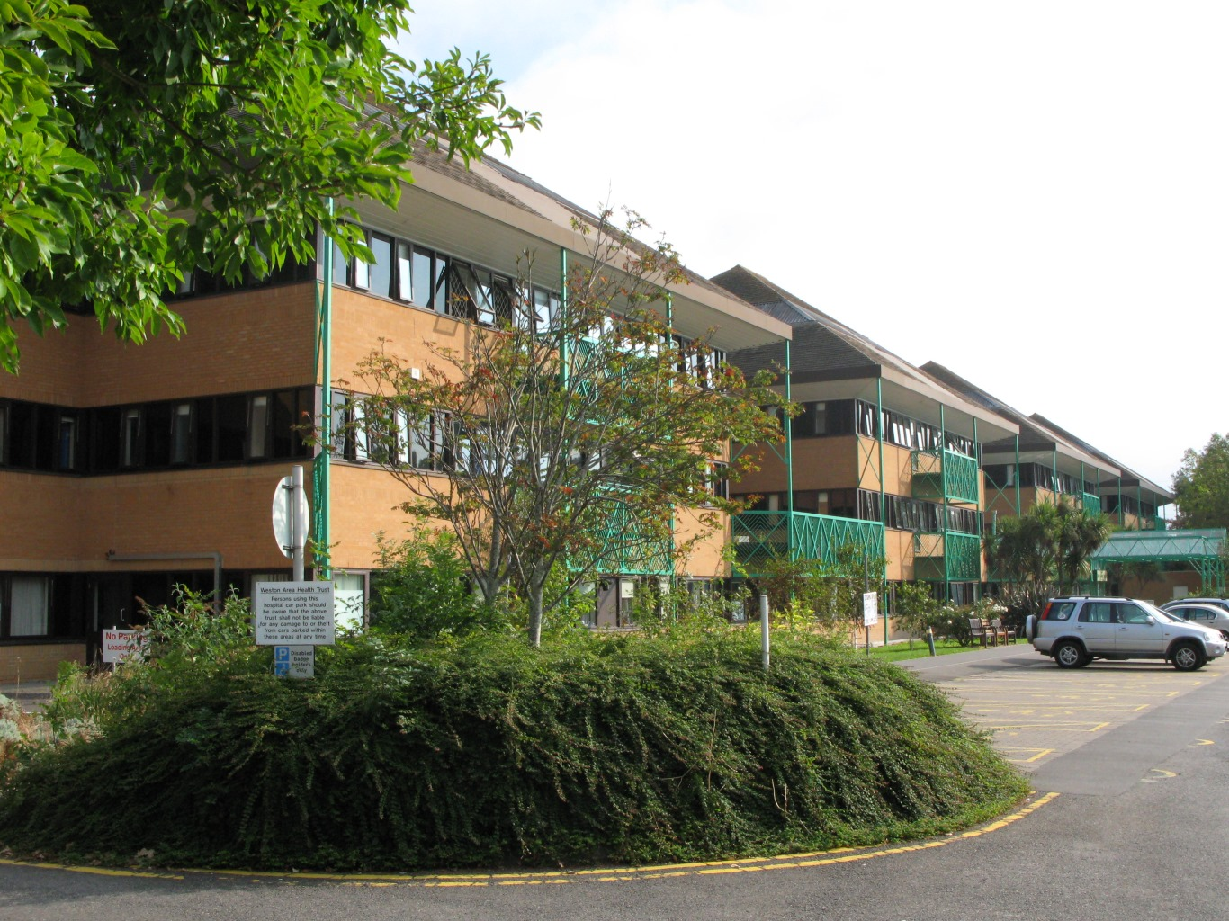 Weston General Hospital, which is situated at Uphill on the outskirts of Weston-super-Mare, North Somerset, England.